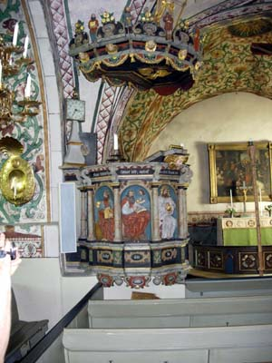 Interior from Torpa churh, Ydre, Sweden